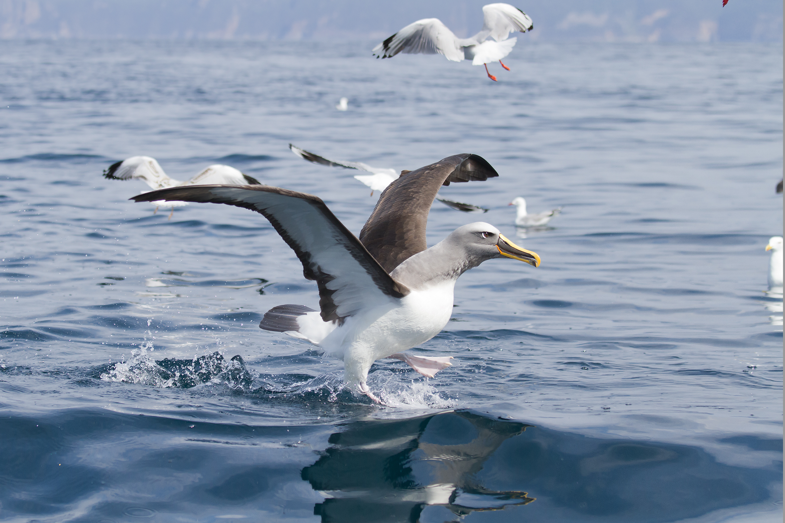 Buller's Albatross (Thalassarche bulleri) scattering Silver Gulls (Chroicocephalus novaehollandiae) whilst landing, East of the Tasman Peninsula, Tasmania, Australia